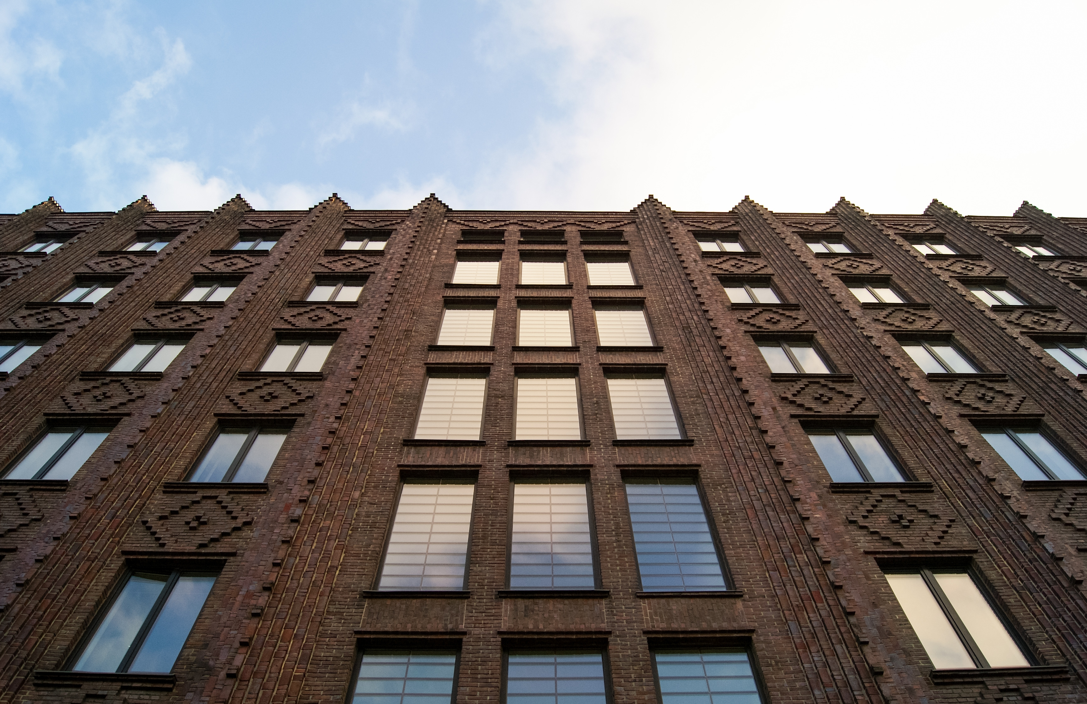 Tallinn City Office